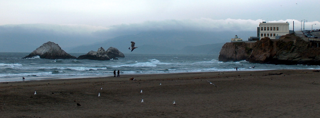 The northern part of Ocean Beach, San Francisco showing Seal Rock and the Cliff House. Photo taken by Eino Mustonen in Feb '06.